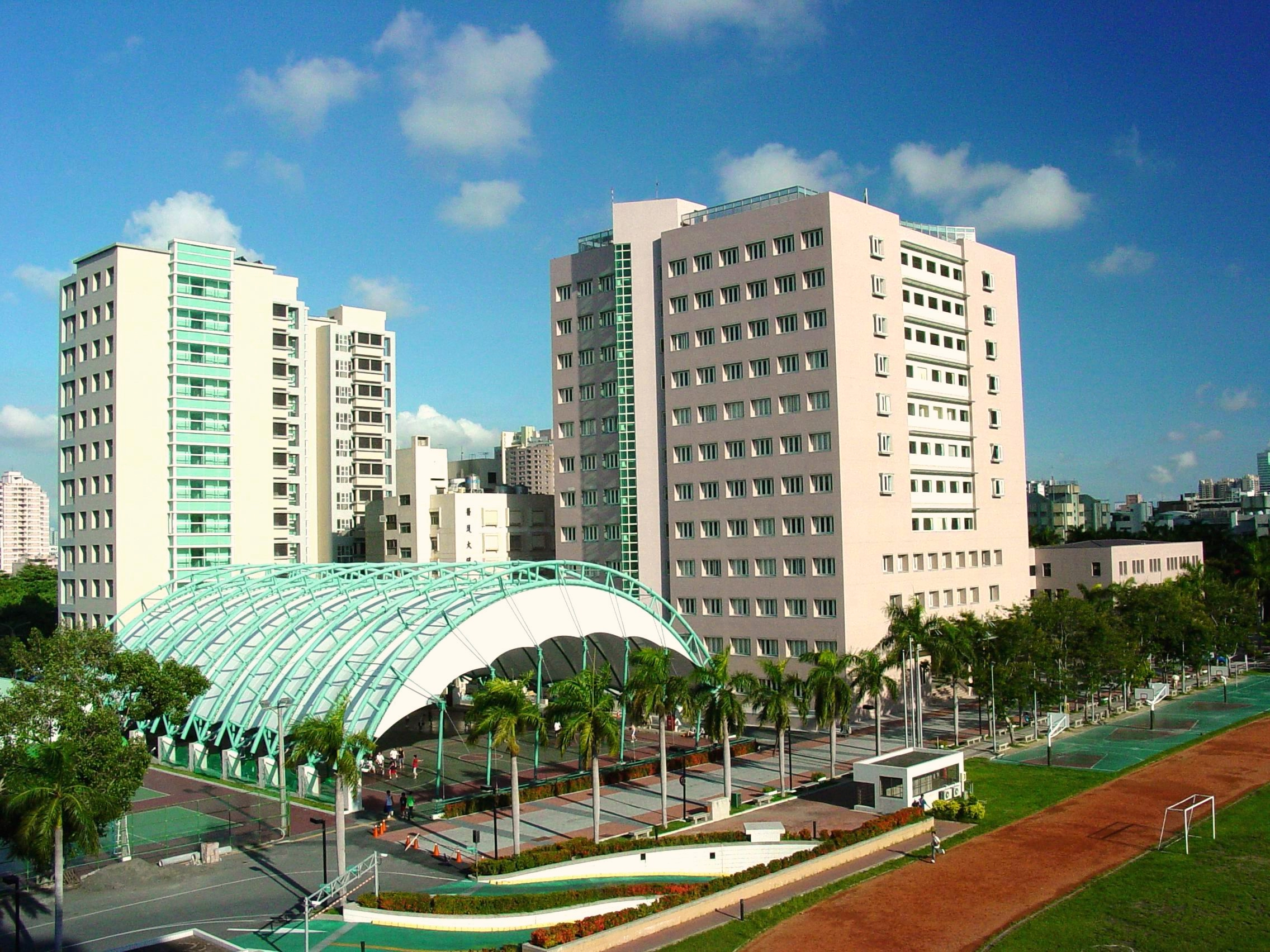 KMU Campus